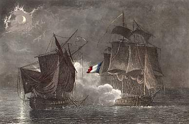 Vénus capturing HMS Ceylon in 1810